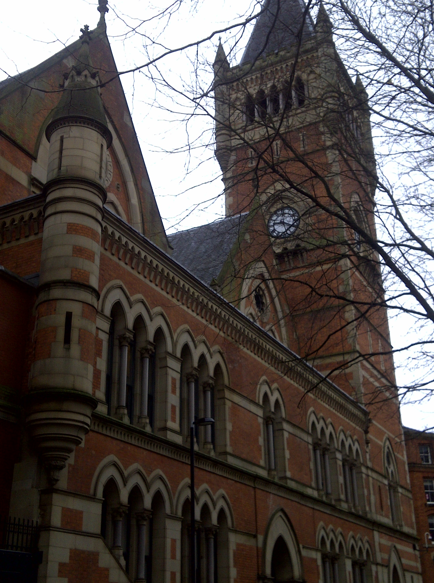 View of Manchester Police Courts